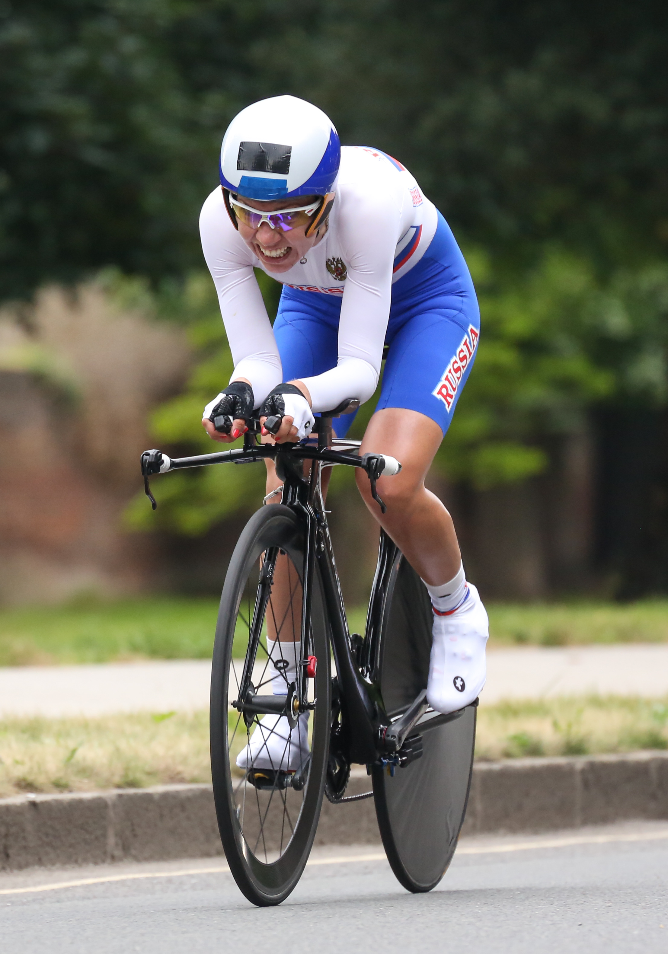 Tatiana Antoshina competing in the London 2012 Women's Olympic Time Trial.